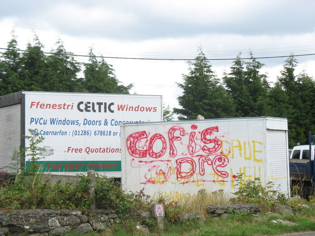 Turf War Graffiti at Glanmoelyn, Llanrug. The words 'Cofis Dre'(Town Lads') have been painted by a raiding party from Caernarfon on a container on the outskirts of the village of Llanrug. Fighting between 'Cofis Dre' and 'Cofis Wlad' (the country lads of the former slate villages of the town's hinterland) is a time honoured tradition. What is new is the appearance of graffiti